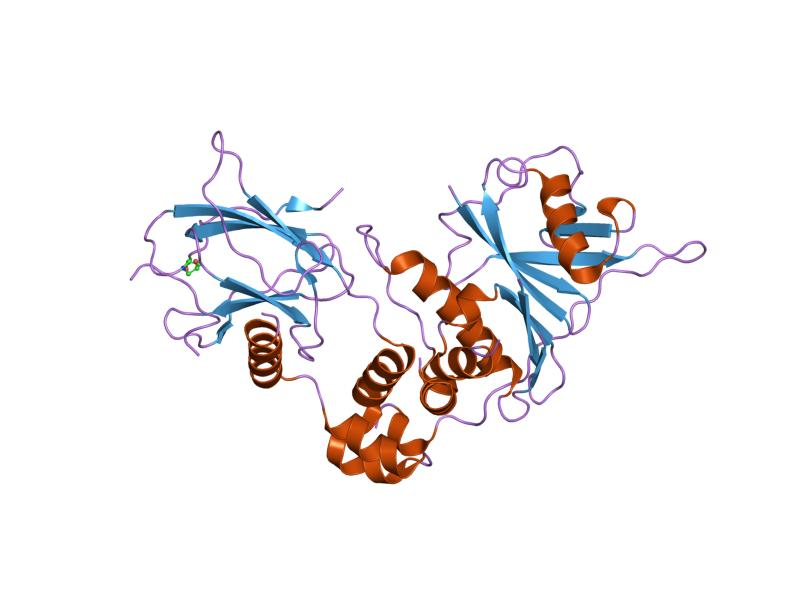 Cartoon representation of the molecular structure of protein registered with 1lm8 code.